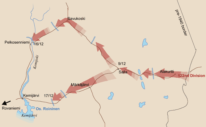 Battle of Salla 1939-1940, first phase.